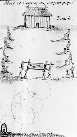 In french "Mort et Convoi du Serpent piqué" (litteraly "death and convoy of stung snake"), The funeral procession of Serpent Piqué (Tattooed Serpent) by Le Page du Pratz.